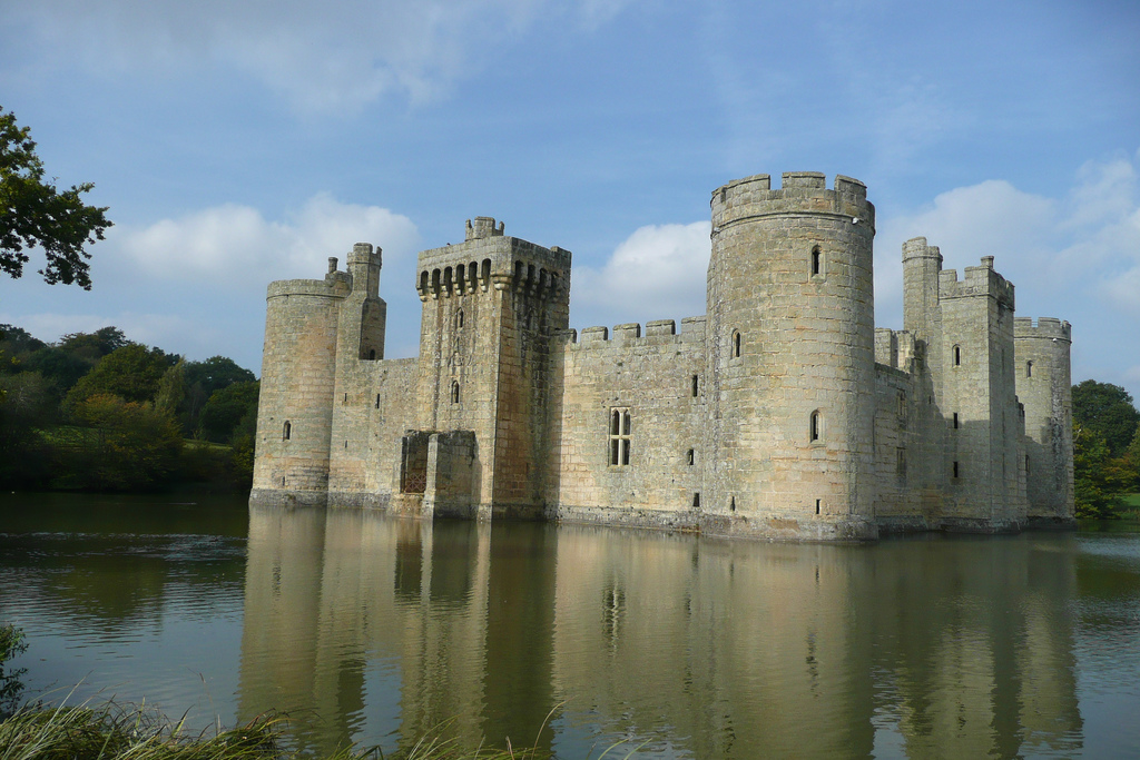 Bodiam Castle in Kent, following the Robertsbridge circular walk from Time Out Country Walks Book 2, Walk 20.